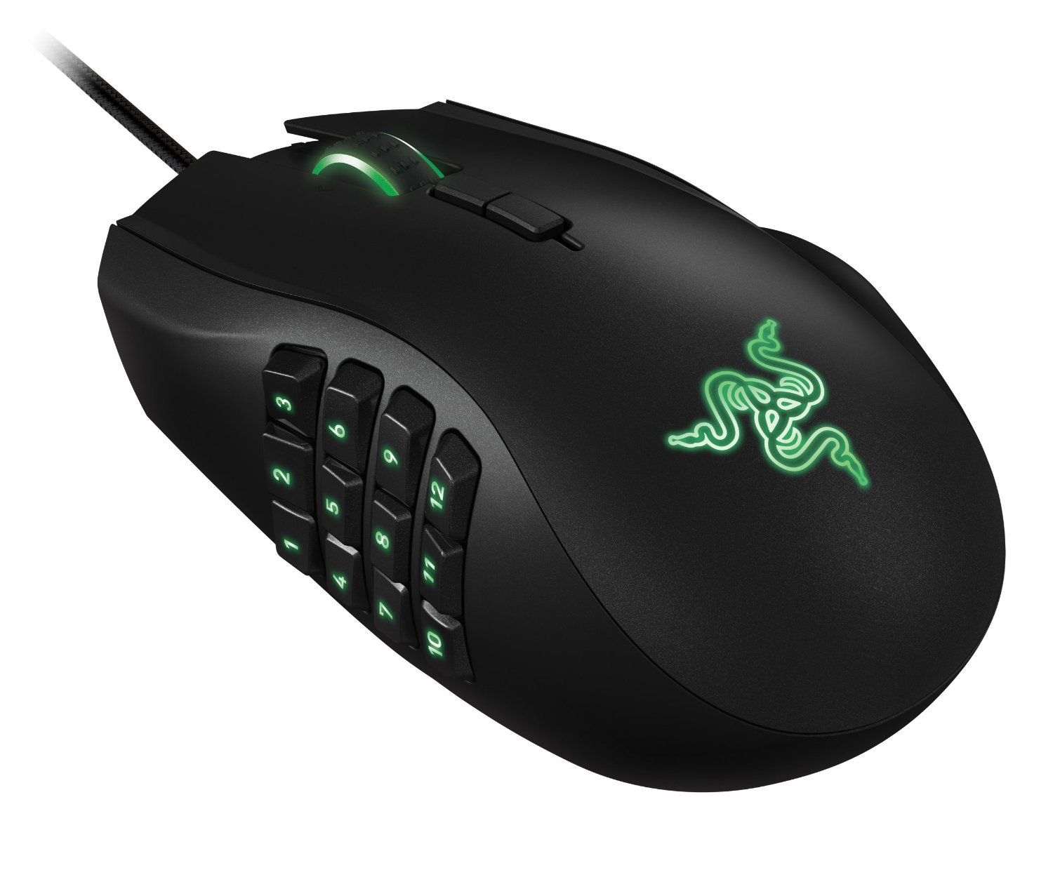 Razer Naga 2014 mouse